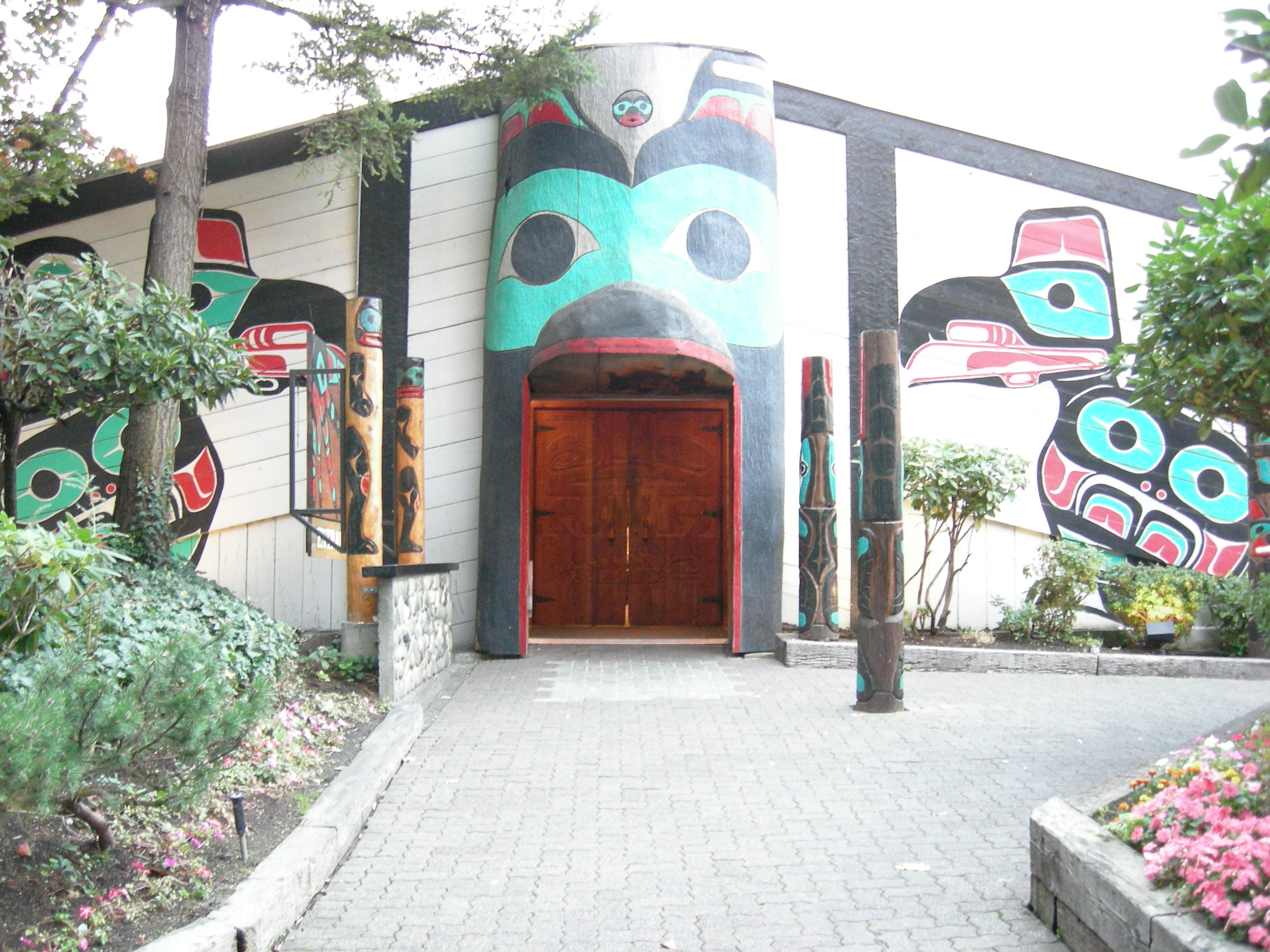 Ivar's Salmon House, north shore of Lake Union, Seattle, Washington. The architecture of the building is based on Northwest Native longhouses